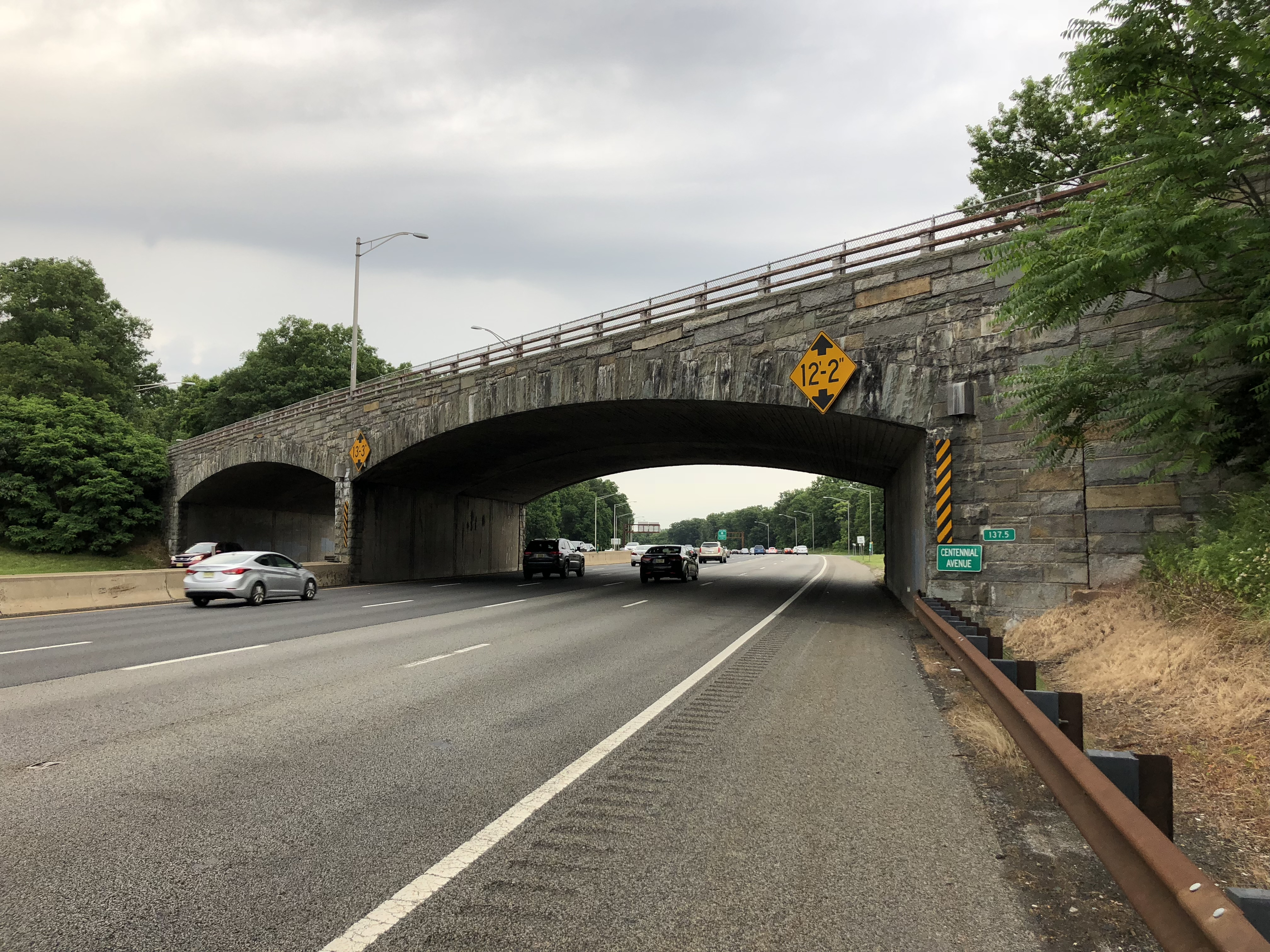 View north along New Jersey State Route 444 (Garden State Parkway) just north of Exit 136 at Union County Route 615 (Centennial Avenue) in Cranford Township, Union County, New Jersey